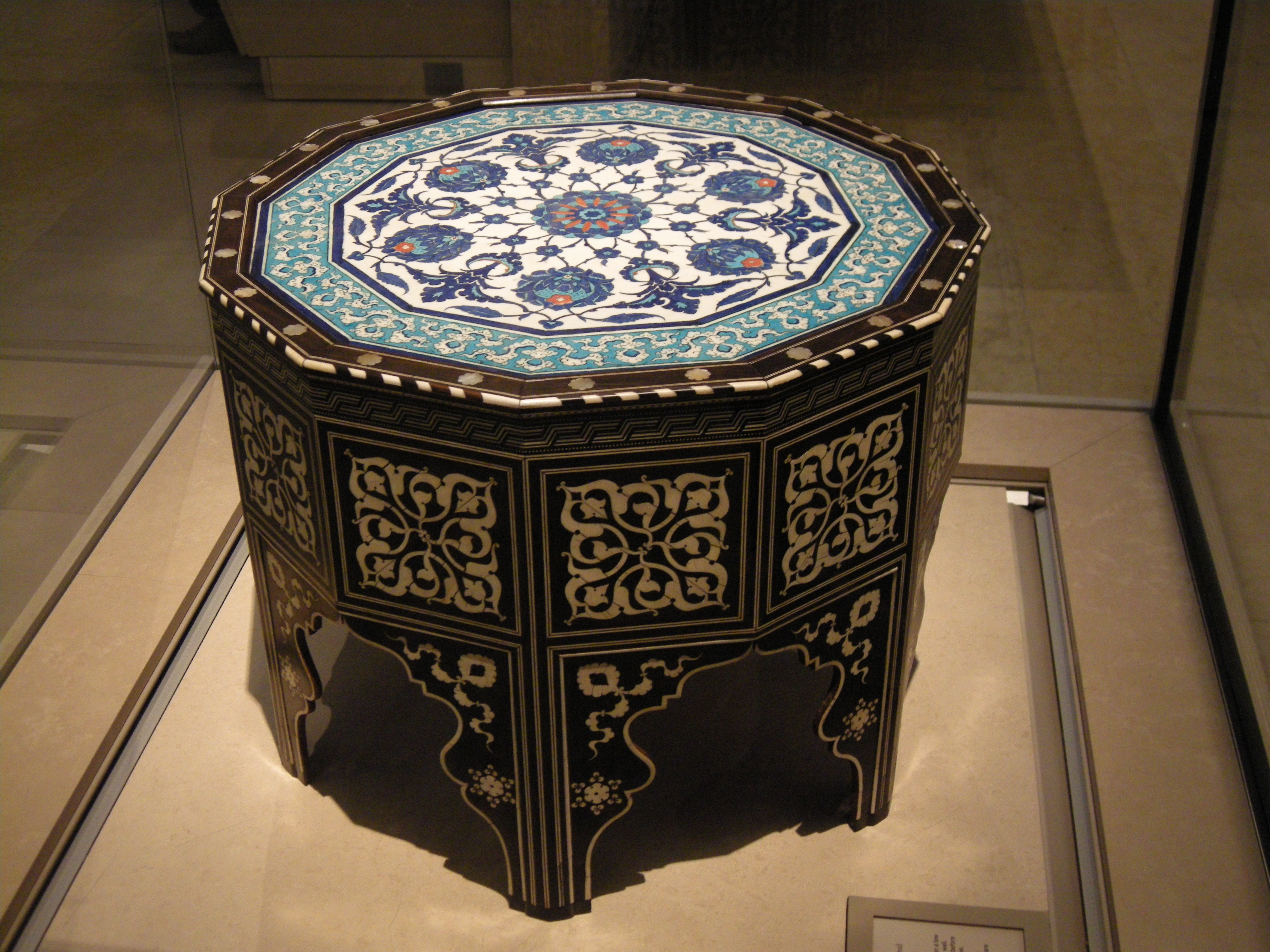 Ottoman marquetry and tile-top table. Tukey, Iznik and Istanbul. About 1560. This little table is a rare example of Ottoman court furniture. The sides and legs are faced with ebony with inlaid decoration in boldly contrasting materials, while the top is made from a single twelve-sided tile. Many polygonal tiles of this type survive, but this is the only example still forming part of a table. In Ottoman palaces, guests sat on a low bench, or divan, built against the wall. Trays of food and drink were set before them, resting on tables of this type. Wood faced with ebony, with inlay of ivory and mother-of-pearl; fritware painted under the glaze. Museum no. C.19-1987 Wikipedia Loves Art at the Victoria and Albert Museum This photo of item # [1] at the Victoria and Albert Museum was contributed under the team name "VeronikaB" as part of the Wikipedia Loves Art project in February 2009. Victoria and Albert Museum The original photograph on Flickr was taken by VeronikaB—please add a comment to the original Flickr page whenever a use has been made on Wikipedia or another project. Project galleries on Flickr: this institution, this team